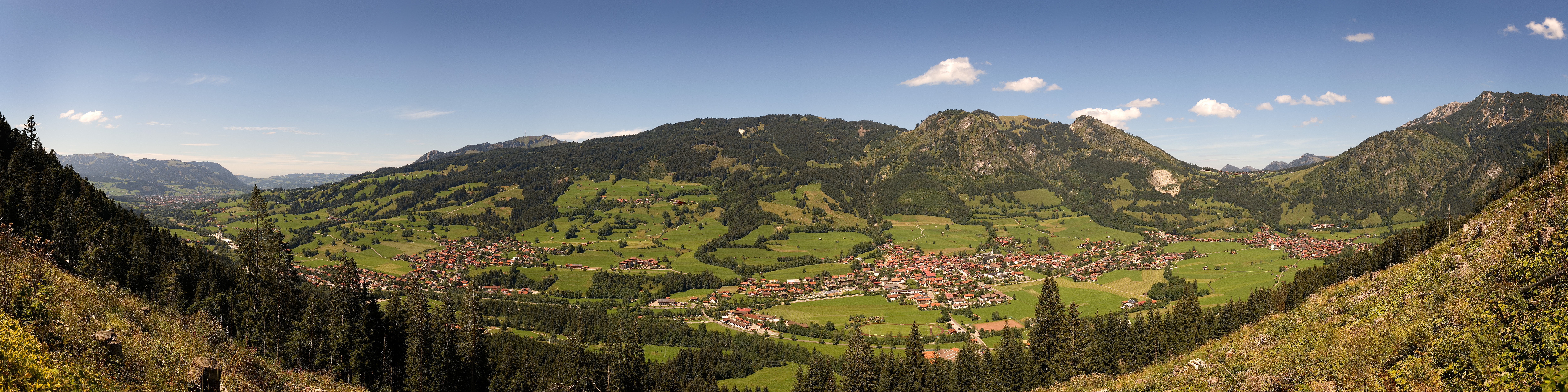 Panoramic view of the Ostrachtal near Bad Hindelang on a sunny summer day. View from the south of the valley. The panoramic image was created by using cylindrical projection. The final picture covers a horizontal field of view of approx. 180°. It was stitched from 26 single images taken in two rows.